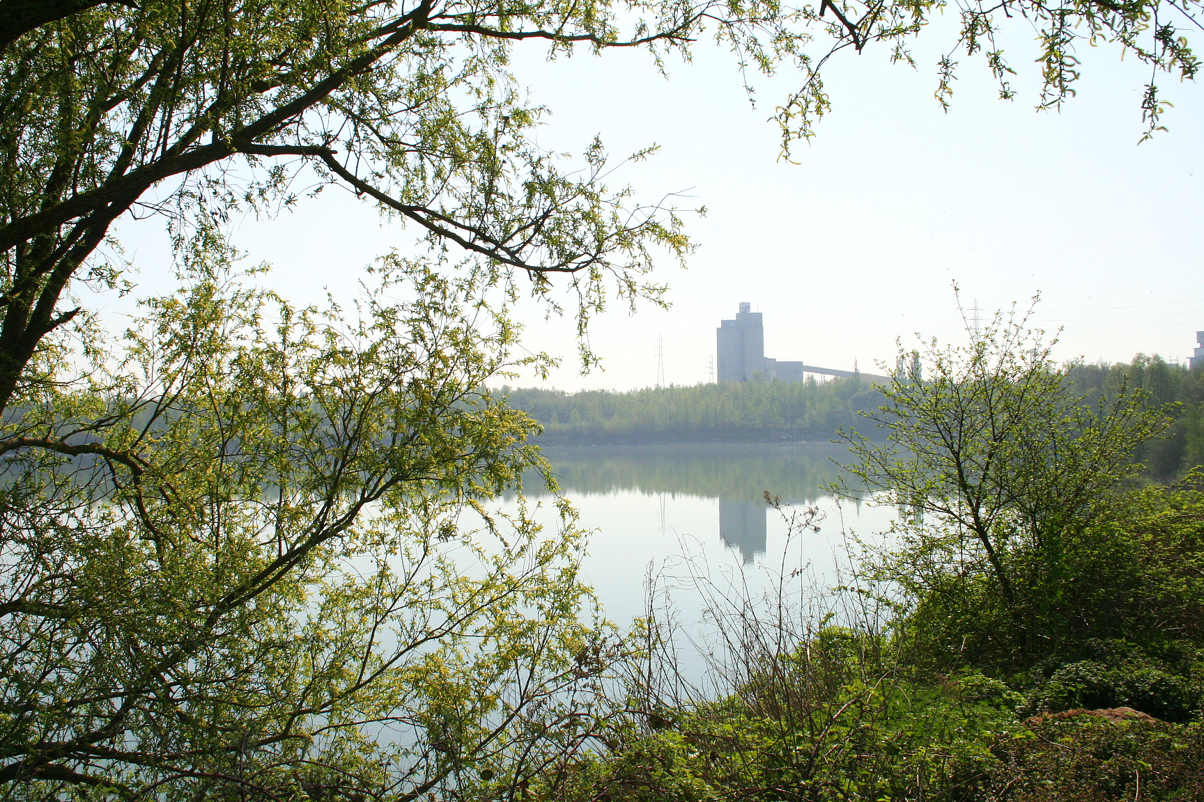 Obourg (Belgium), lake of the stone carries viewed from the geological garden.